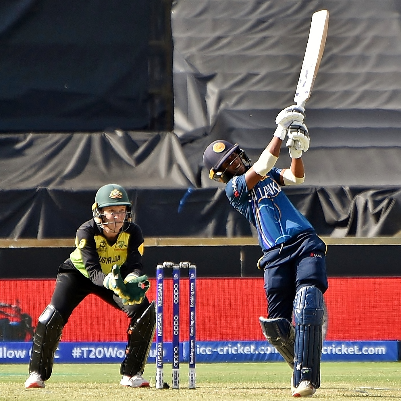 Nilakshi de Silva batting for Sri Lanka against Australia during their 2020 ICC Women's T20 World Cup match at the WACA Ground in Perth, Australia. The wicket-keeper is Alyssa Healy.